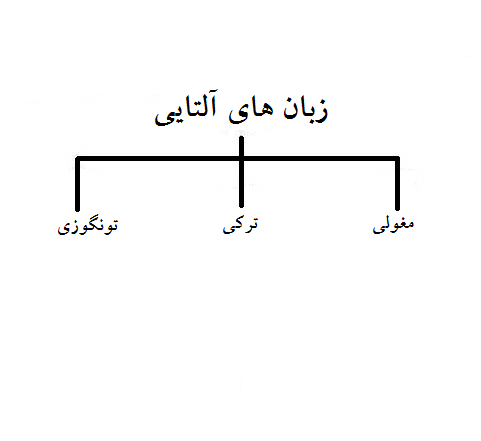 Turkish, Mongolian, and Tungusian languages are in the Altaic language subcategory.